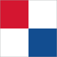 Croatian squares designed by Boris Ljubicic, well-known base for every Croatian identity.